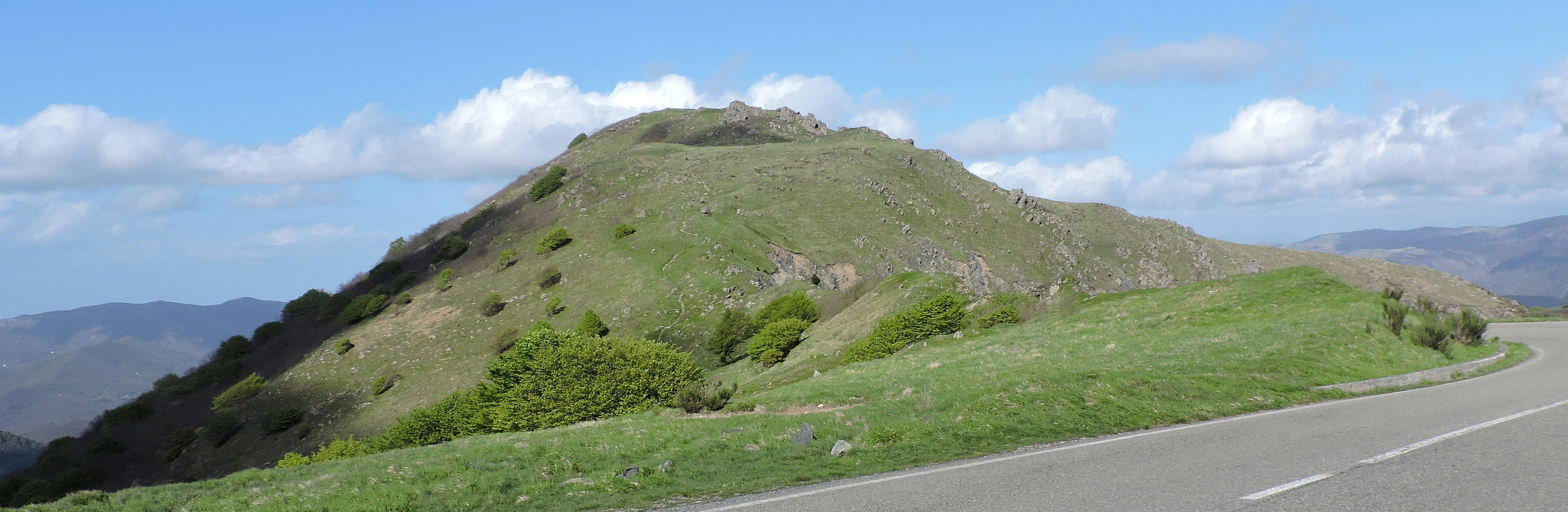 Monte Giallo from provincial road nr.73